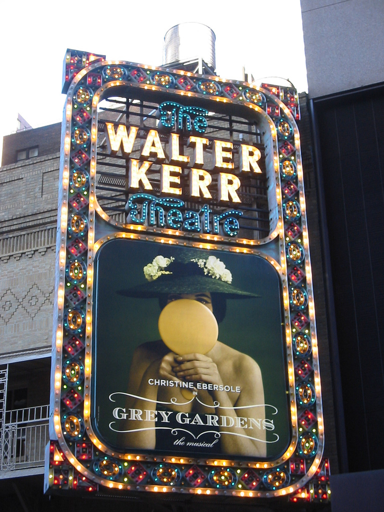 Marquee of the Walter Kerr Theatre, advertising Christine Ebersole in Grey Gardens 218 West 48th Street, Manhattan, New York